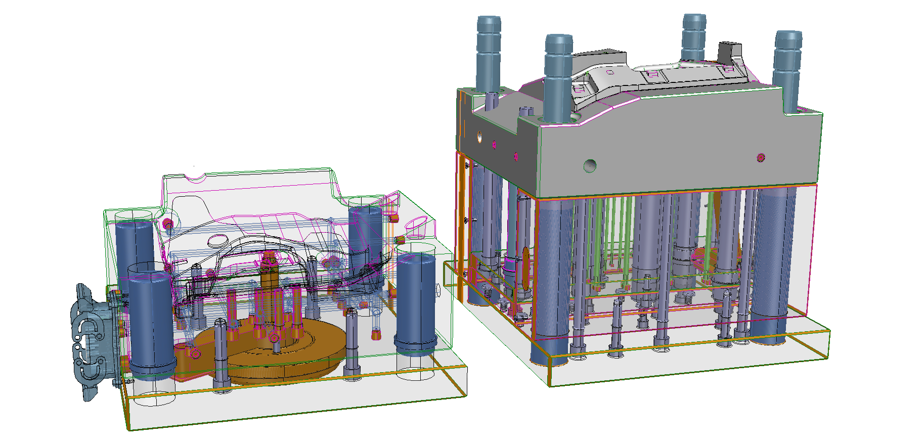 3d rendering of a mould from Delcam PowerSHAPE